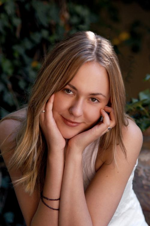 Anna Lyzhicko in New Zeeland.